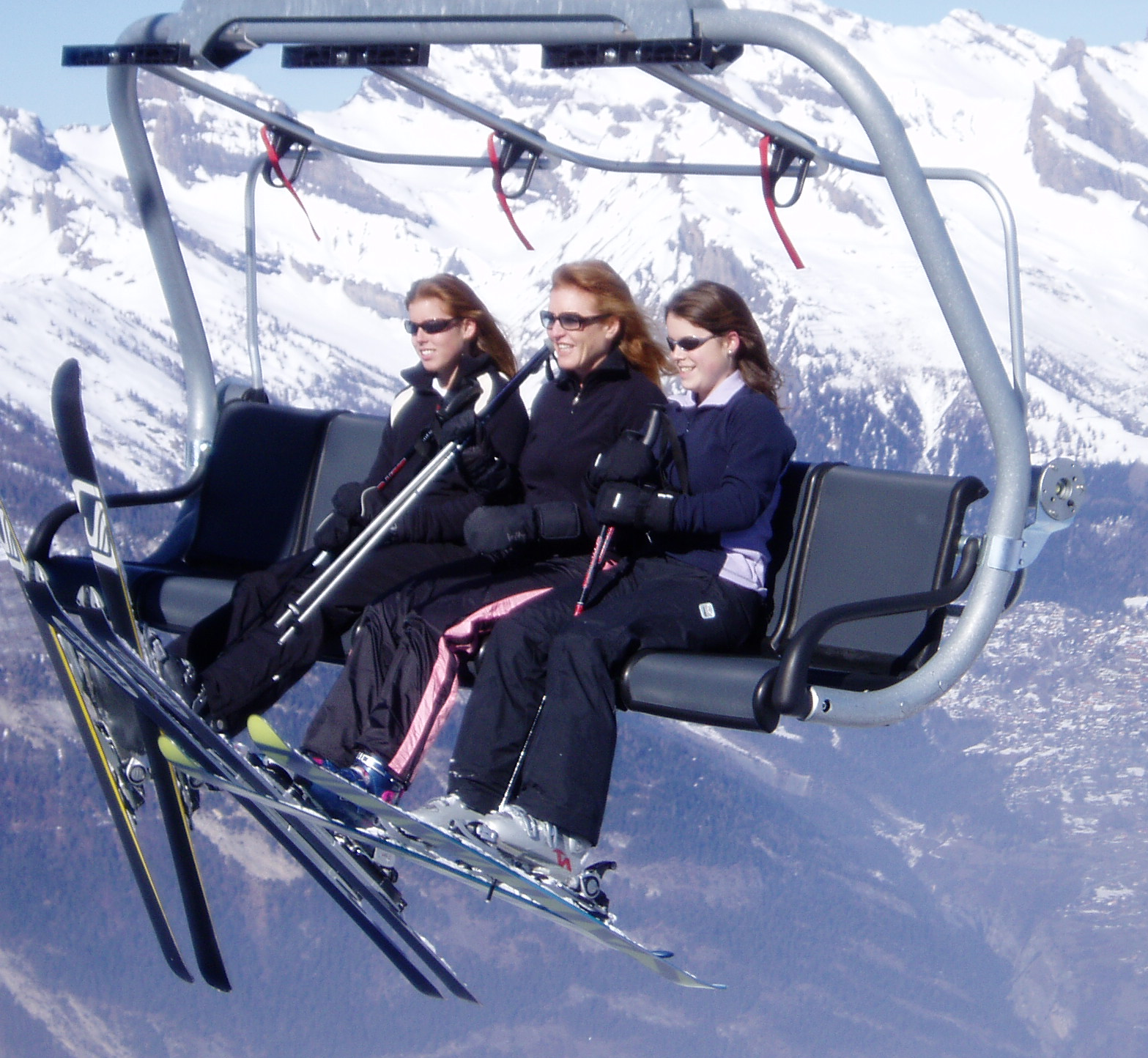 Princess Beatrice of York, Princess Eugenie of York and Sarah, Duchess of York, skiing in Verbier, Switzerland